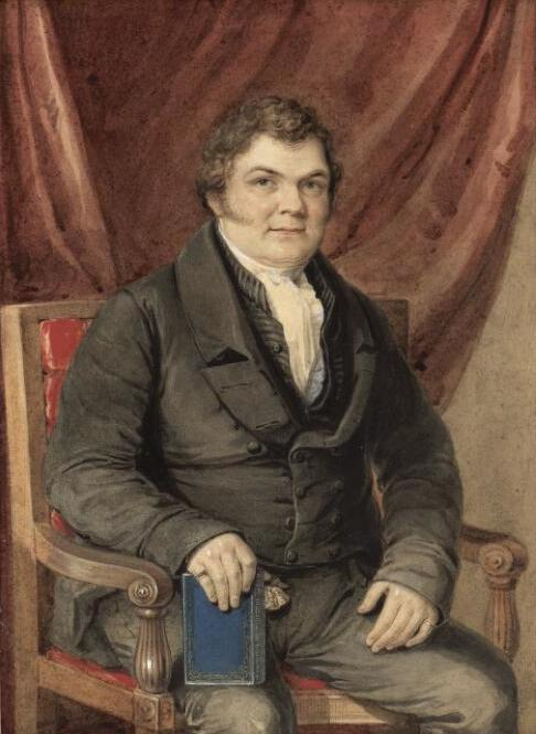 A portrait from the Welsh Portrait Collection at the National Library of Wales. Depicted person: John Angell James – British abolitionist